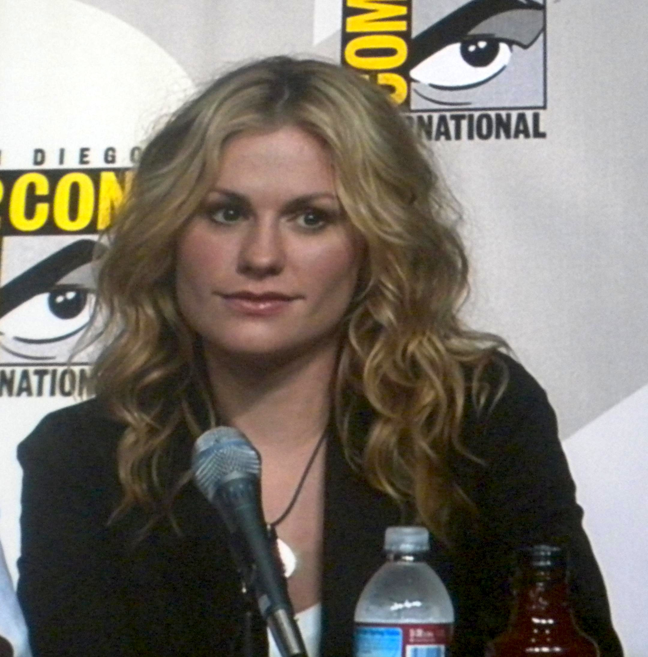 Actress Anna Paquin – Comic-Con 2009 - "True Blood" panel - Anna Paquin - San Diego, Calif. - July 25, 2009.